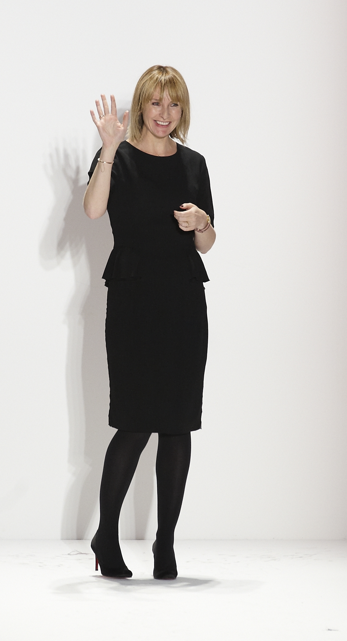 Rebecca Taylor receive applause at the conclusion of her Fall/Winter 2010 show at New York Fashion Week, February 2010.